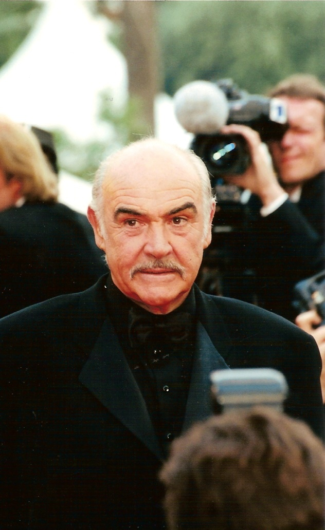 Sean Connery